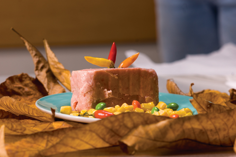 Spam, served with corn kernels